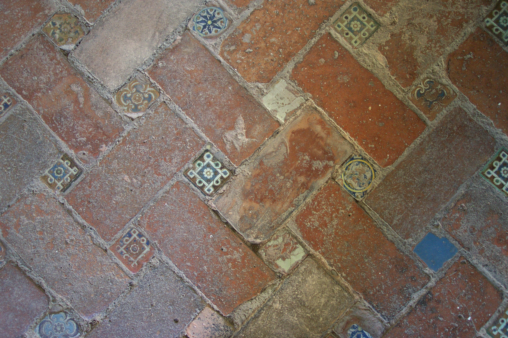 Alhambra, Spain.